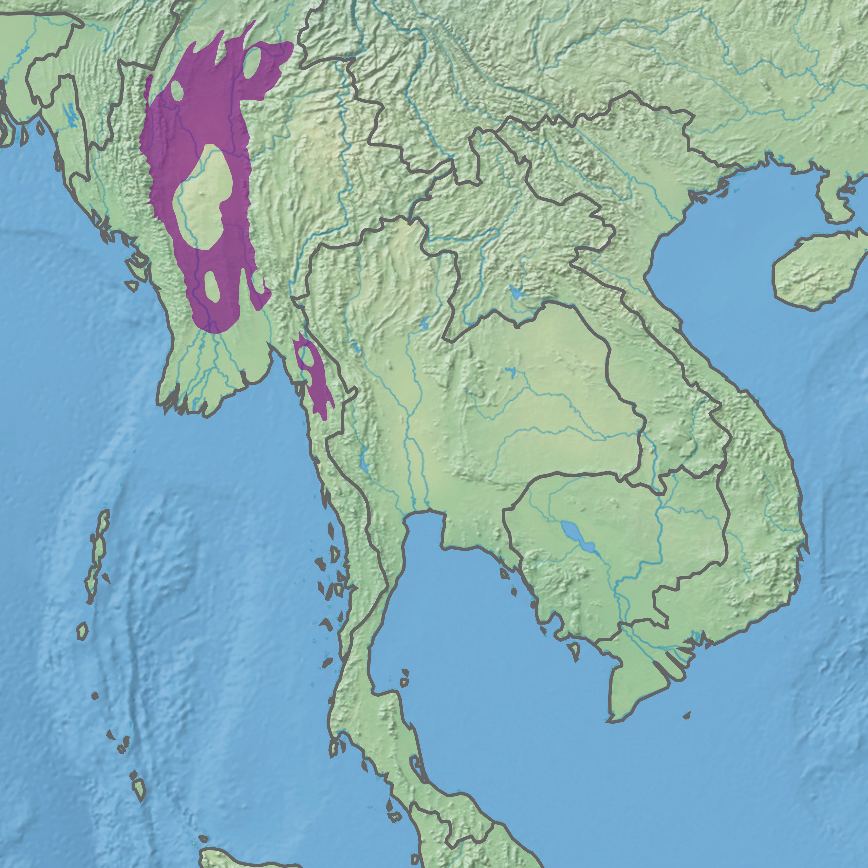 Ecoregion IM0117 - Irrawaddy moist deciduous forests (in purple)